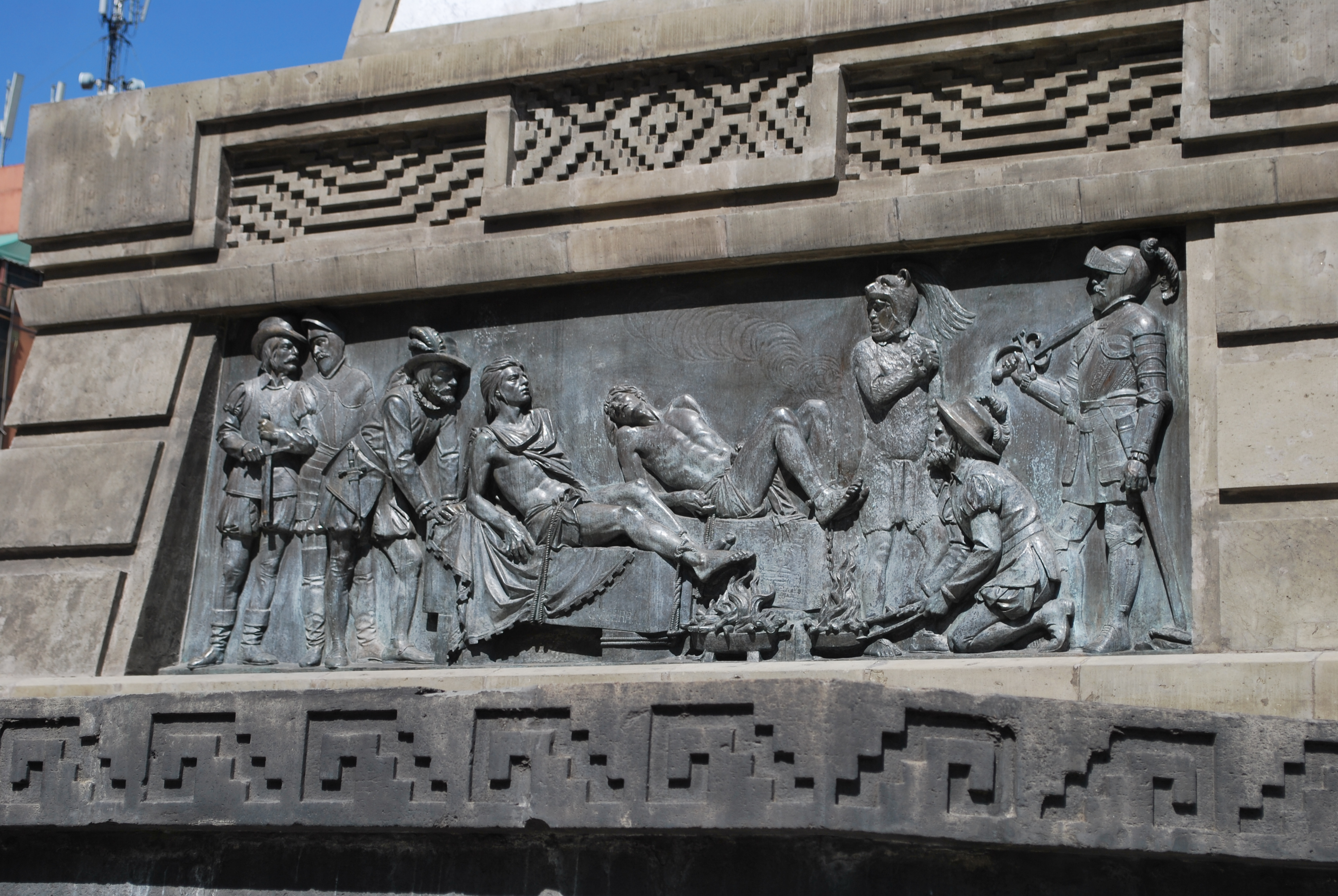 Scene of the torture of Cuauhtemoc and Tetlepanquetzaltzin on the Monument to Cuauhtémoc in Paseo de la Reforma, Mexico City